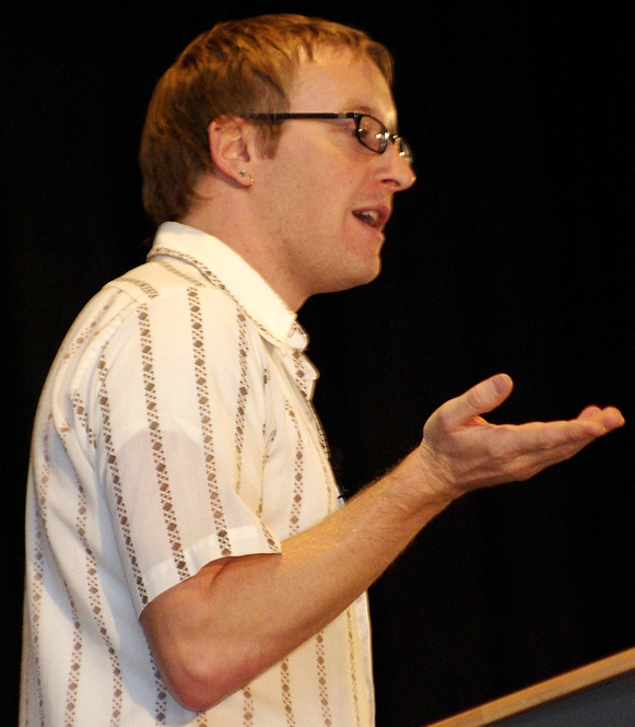 Randy Smith au Montreal International Games Summit in 2007.